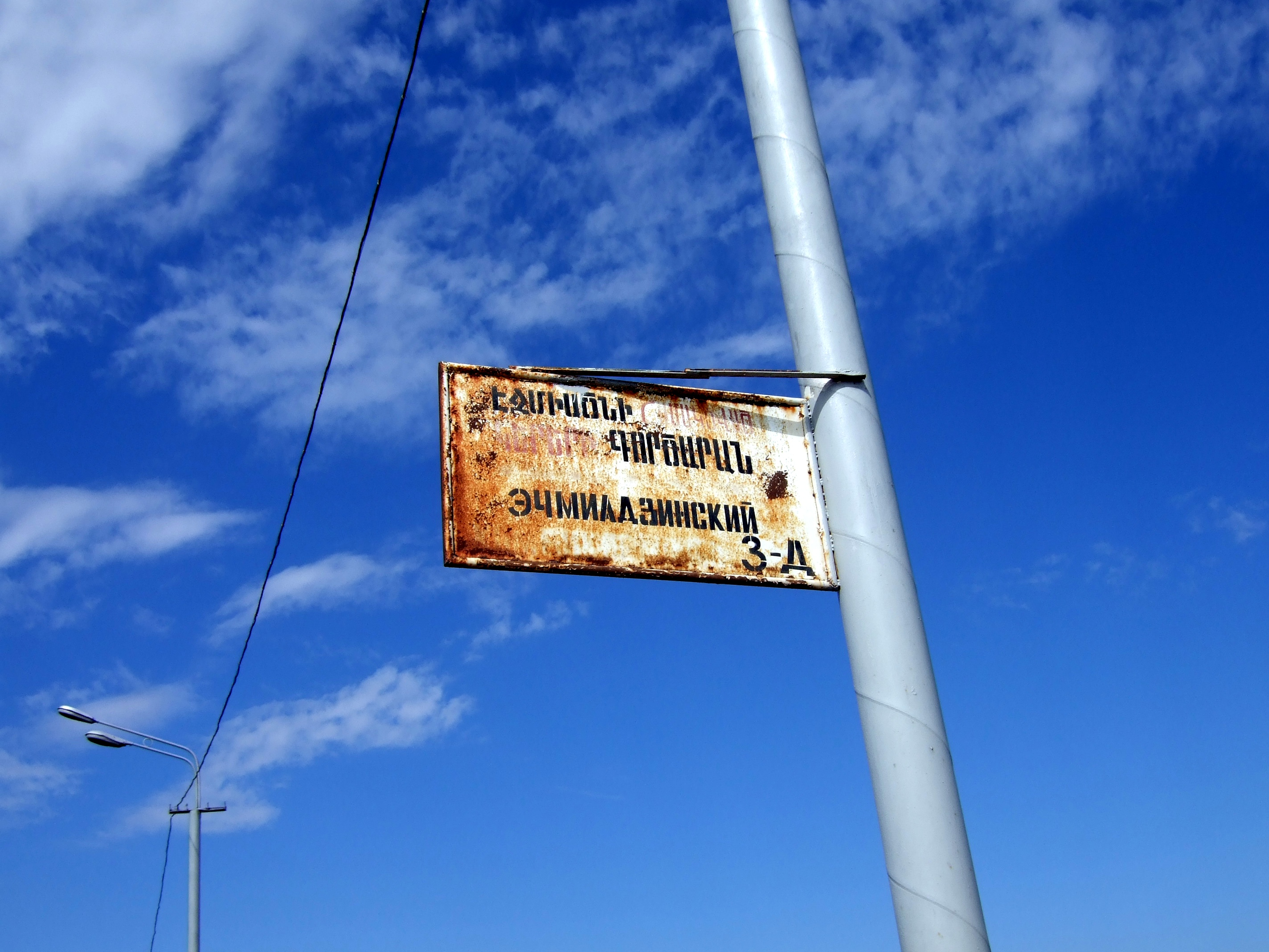 Old rusty sign showing Etchmiadzin Factory near Vagharshapat